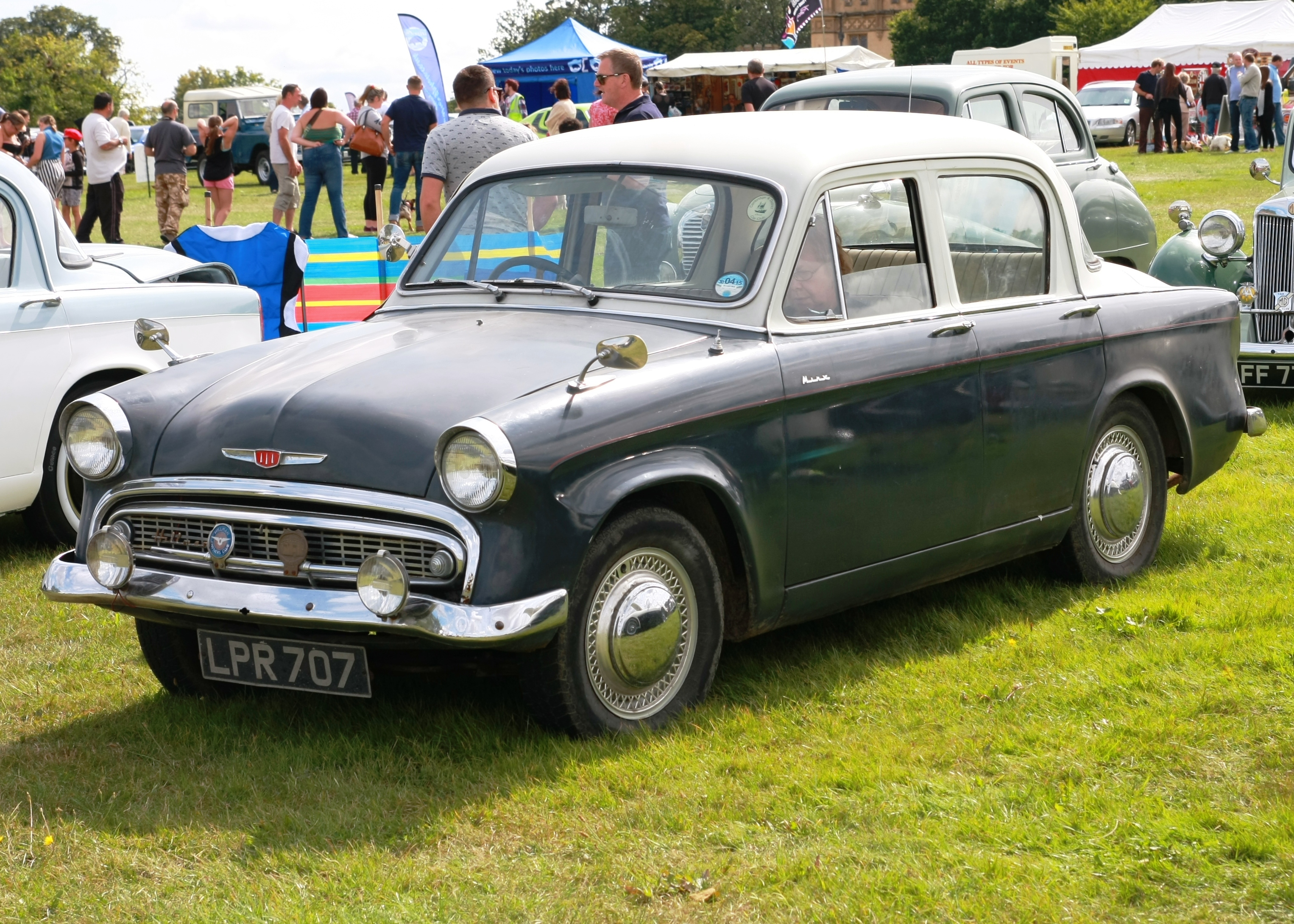 Hillman Minx Series II (1958) at Knebworth (2014)